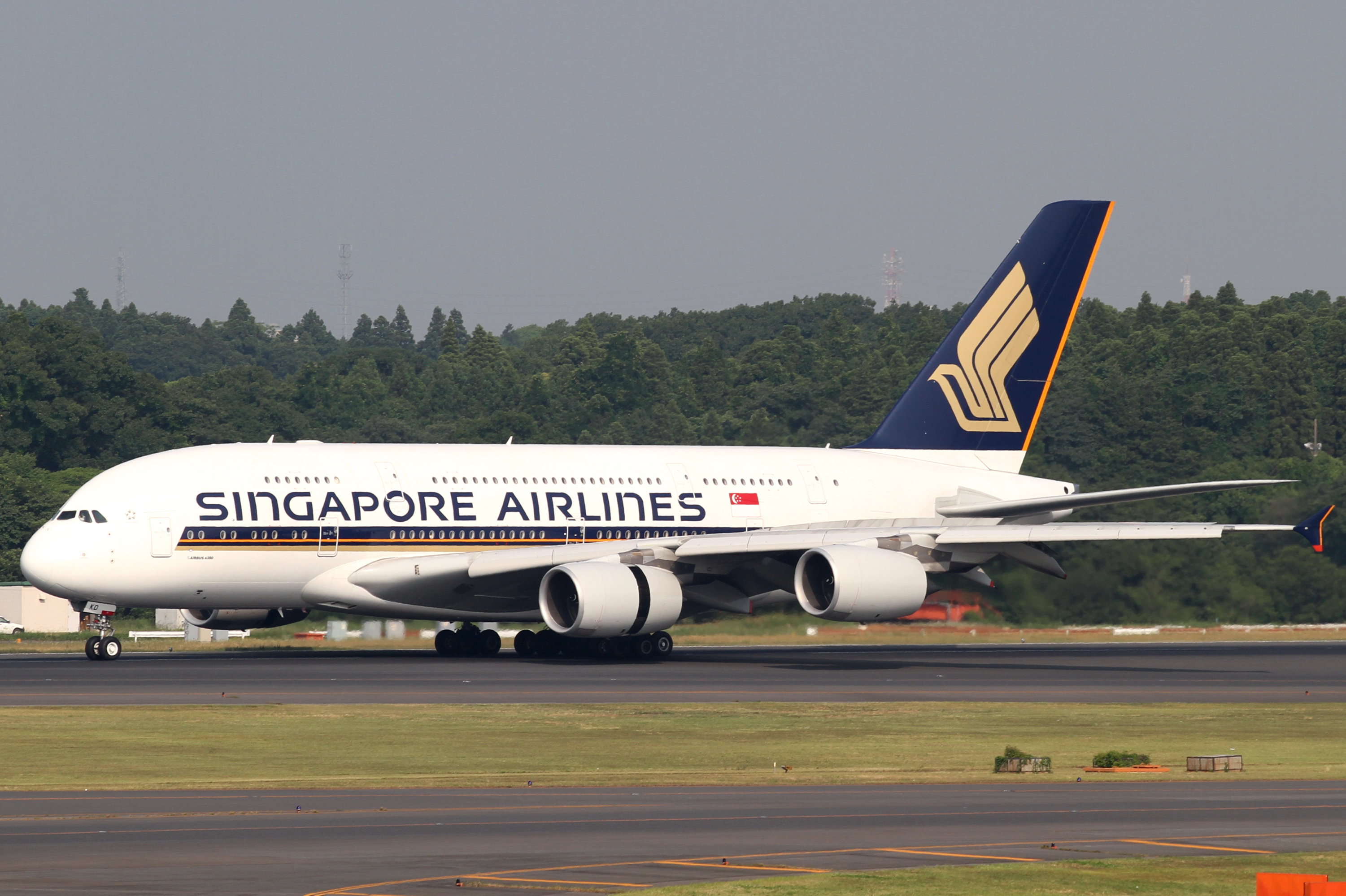 Narita International Airport, Airbus A380-841, c/n:008, SIN to NRT, Flight SQ638, Singapore Airlines